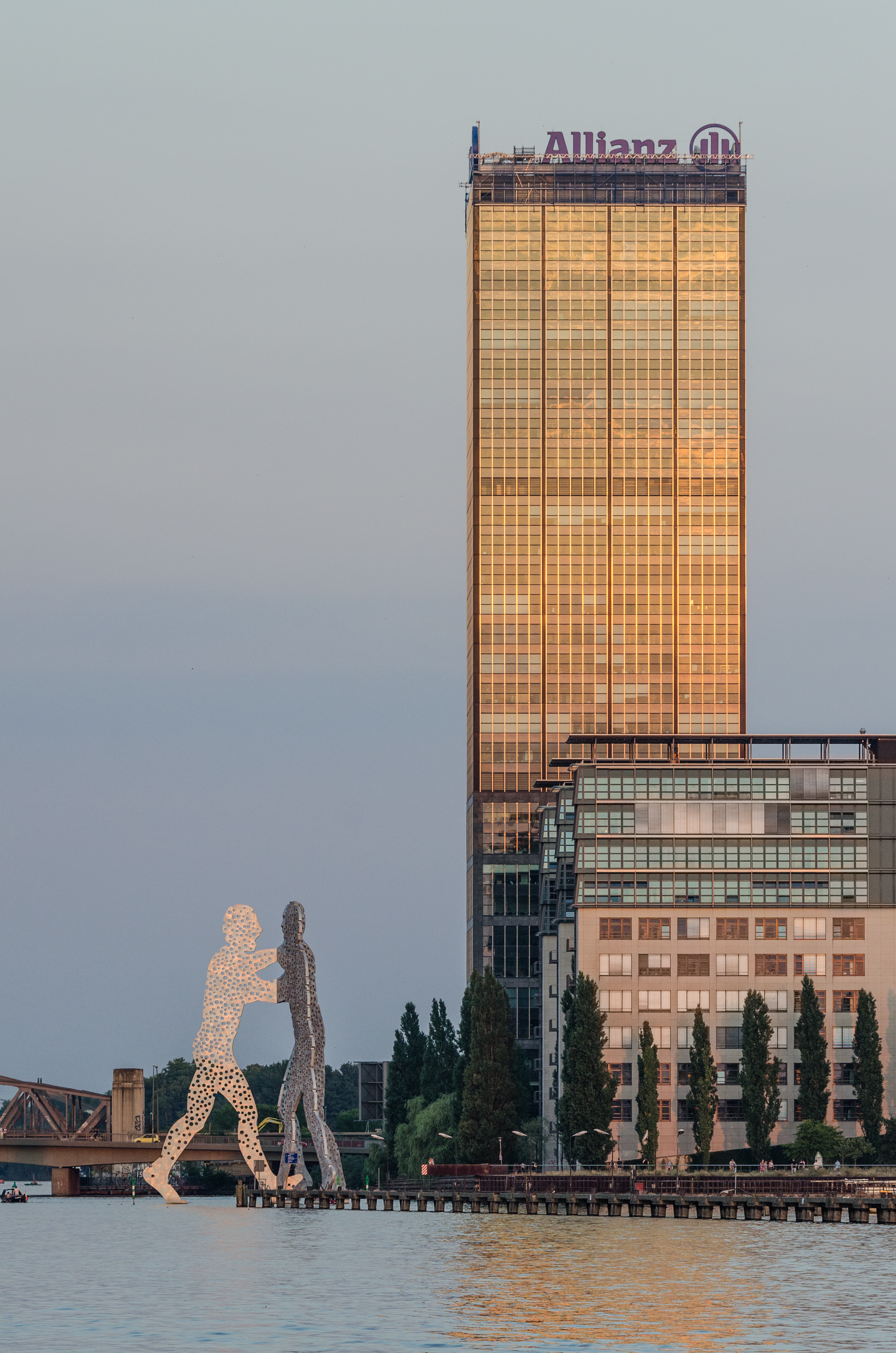 The Treptowers in Berlin as seen from the Oberbaumbrücke